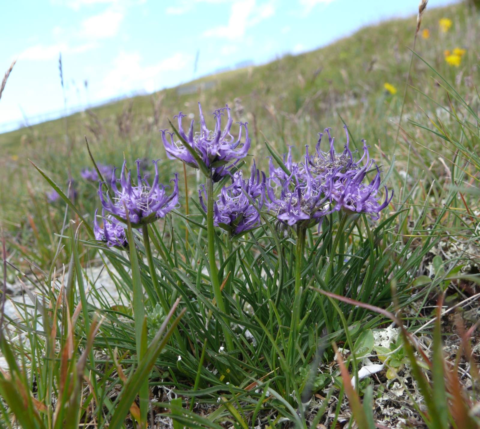 Phyteuma hemisphaericum, Zillertaler Alpen, Italy